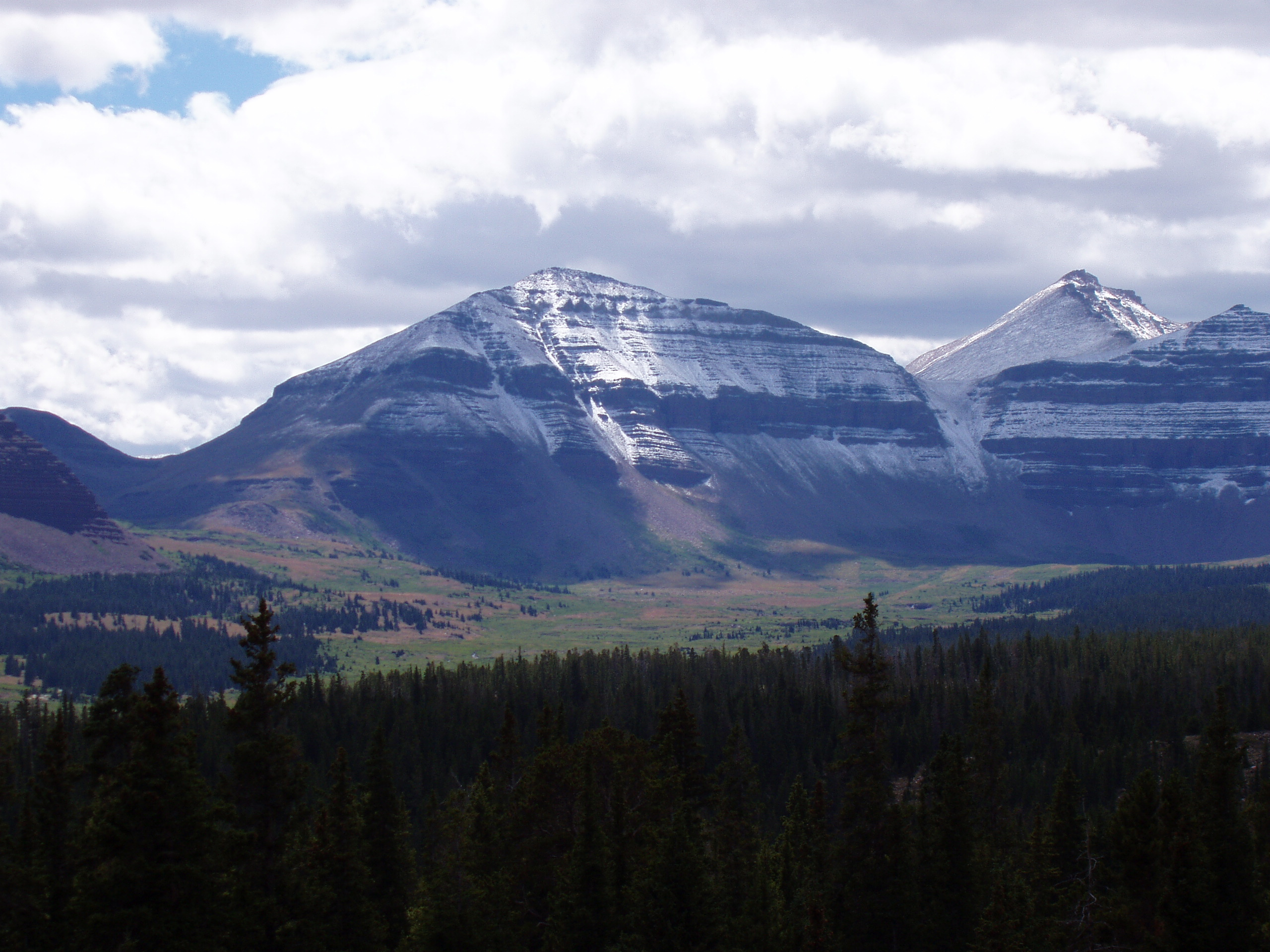 Close-up shot of Kings Peak (Utah, USA) as seen from the north. Kings Peak is on the right, and Gunsight Pass is on the far left.